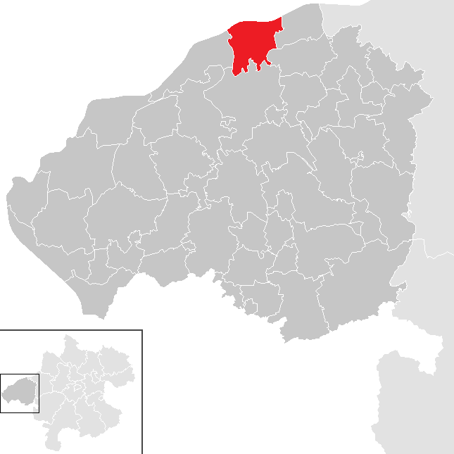 district Braunau am Inn